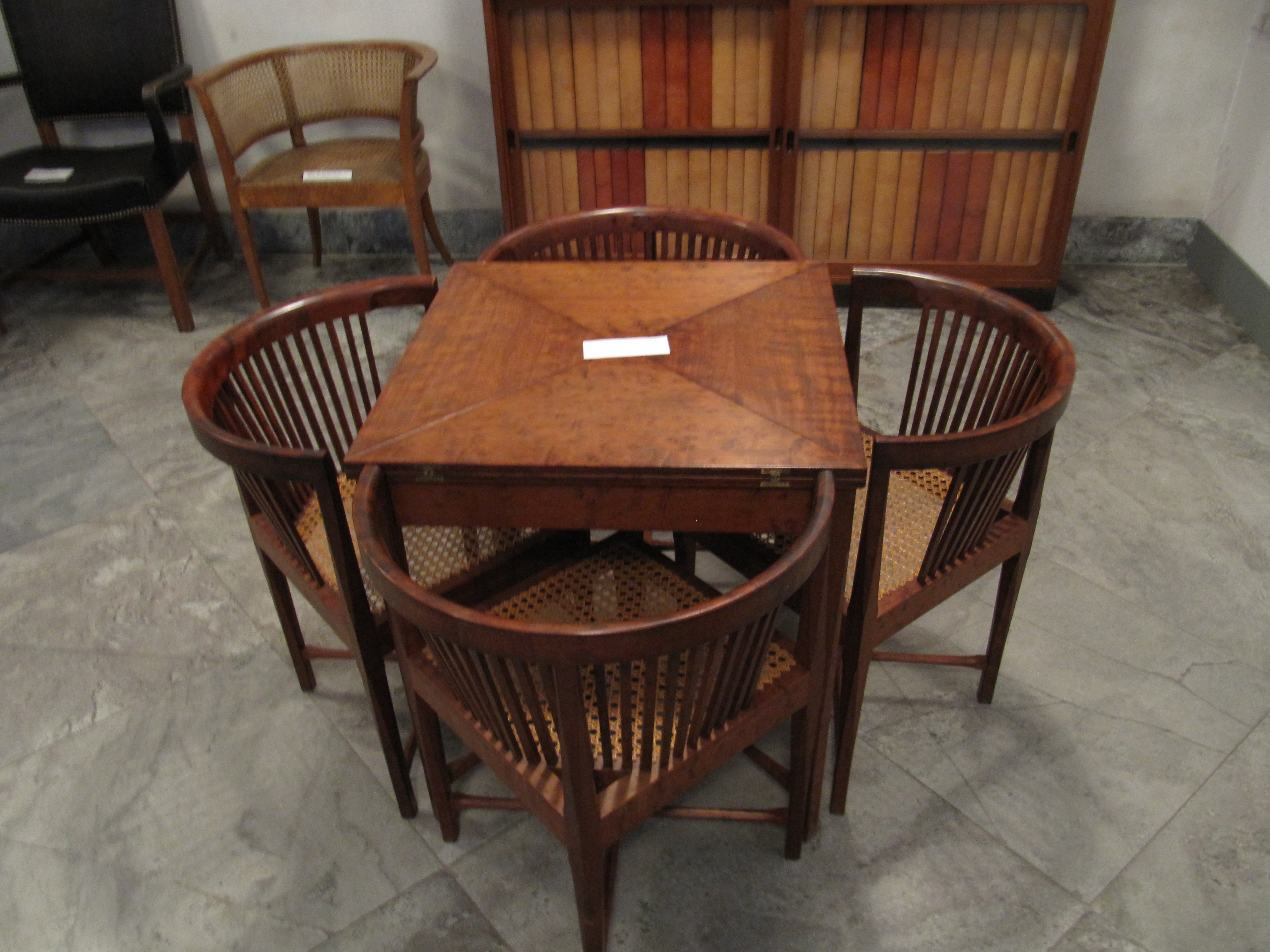 Table and chairs designed by Kaare Klint at the Danish Design Museum in Copenhagen